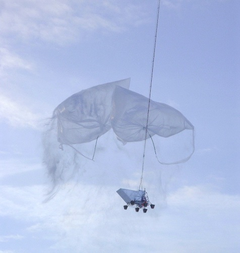 Photograph taken during the last launch at Kiruna (Sueden) by the Archeops collaboration. Image created by uploader.